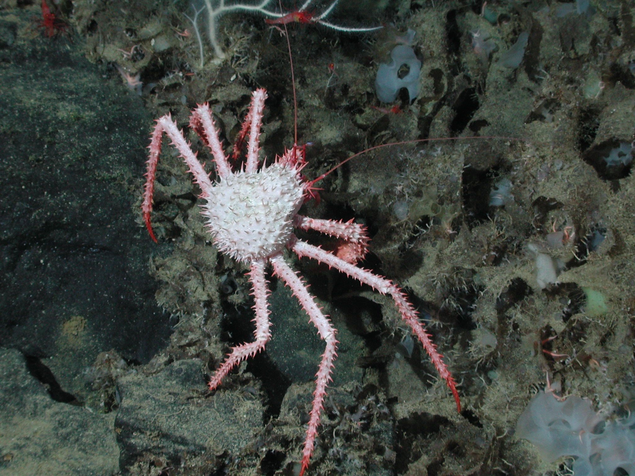 Neolithodes sp. California, Davidson Seamount.